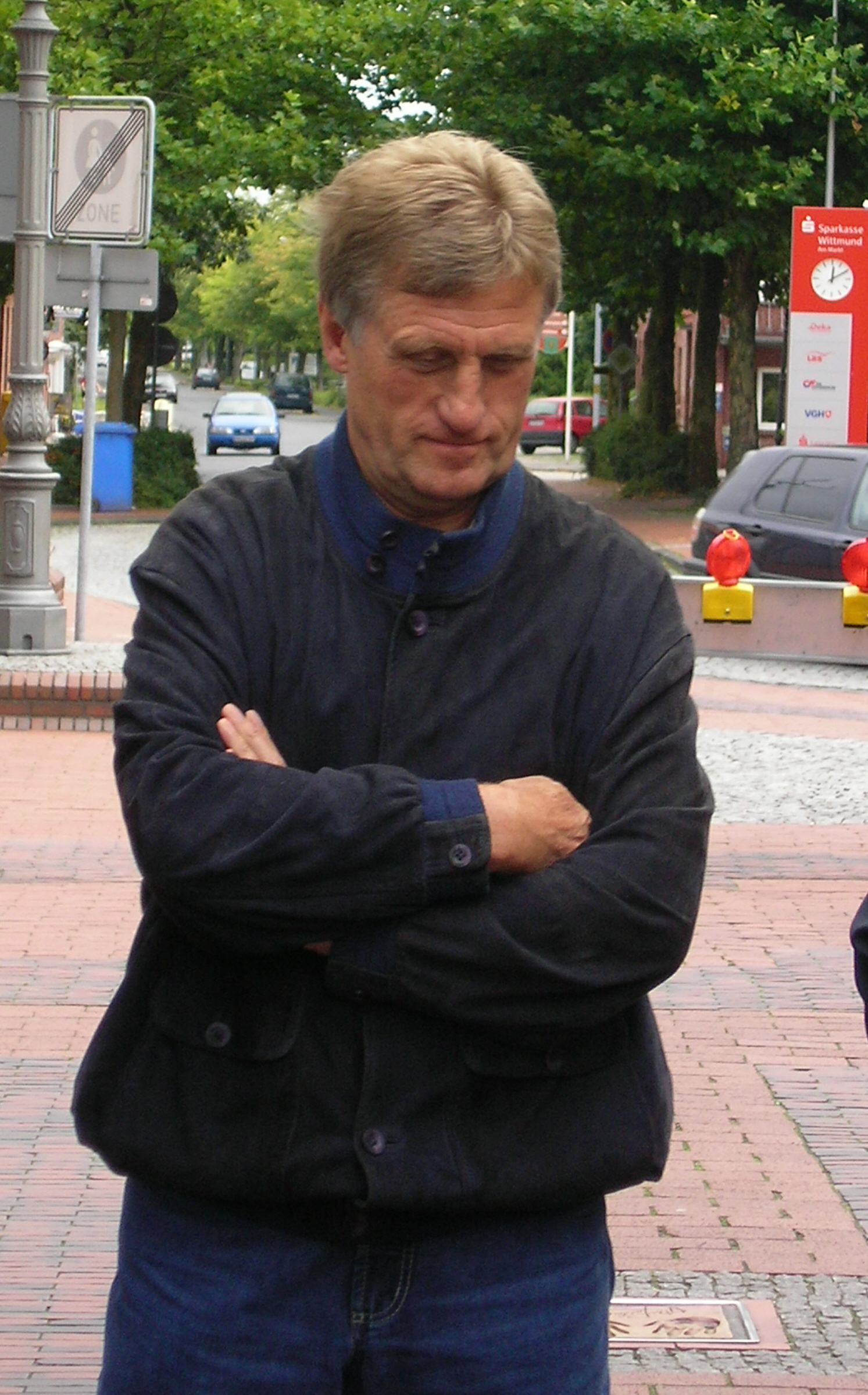 Klaus Fichtel 2008